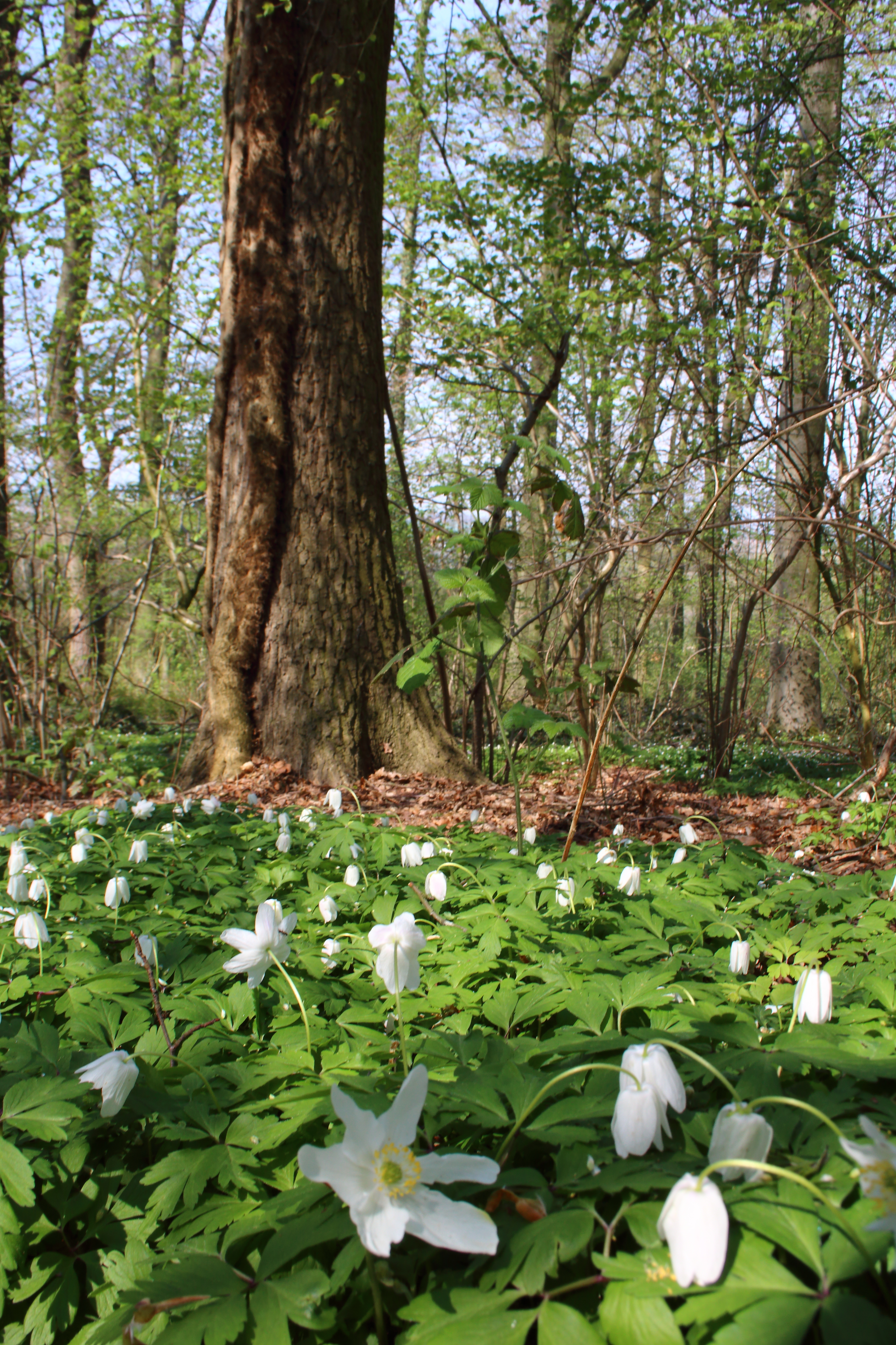 Kloosterbos nature reserve, Zottegem, Flanders, Belgium